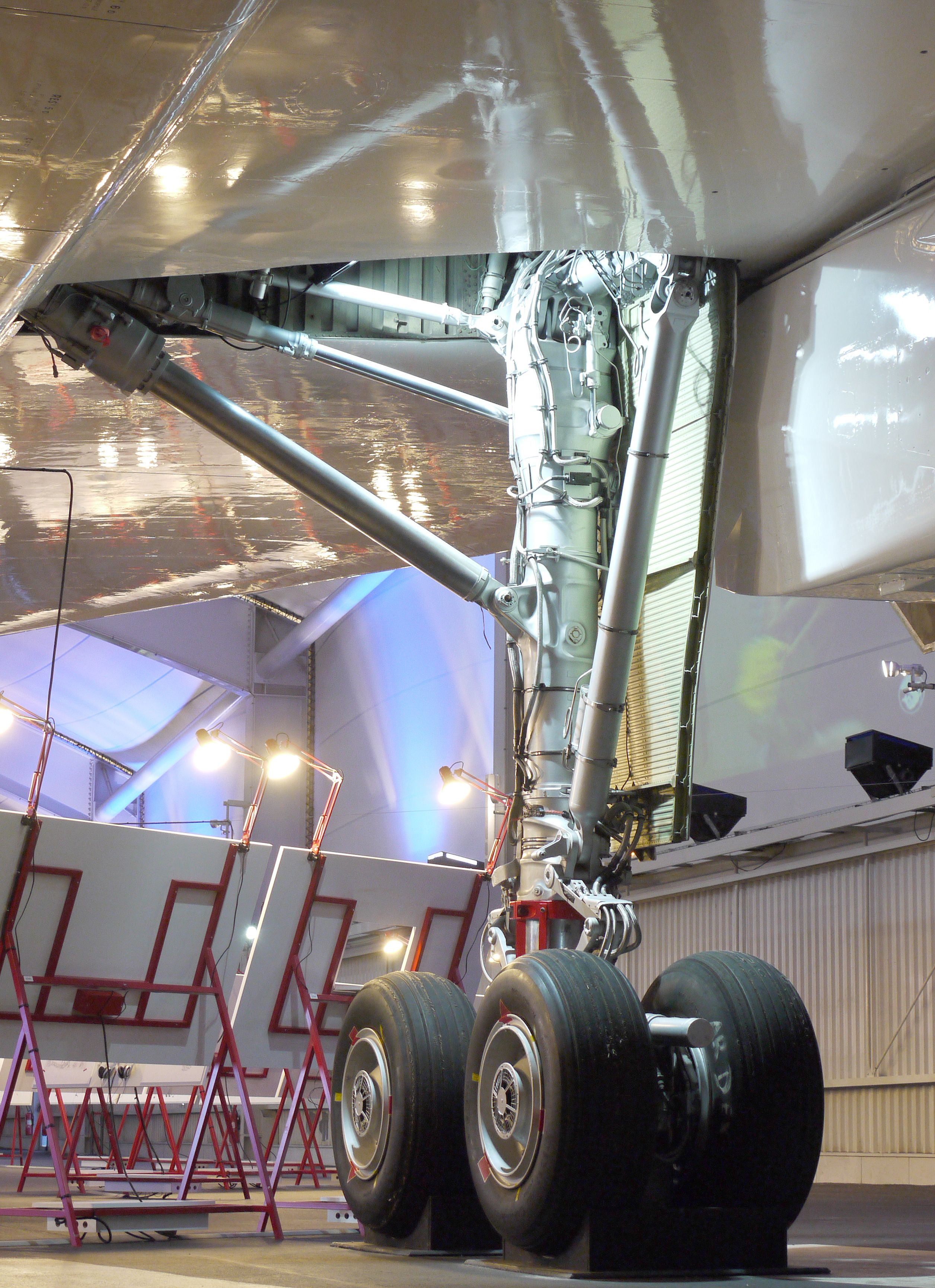 Main undercarriage of the Concorde airplane , Museum of Air and Space Paris, Le Bourget (France)